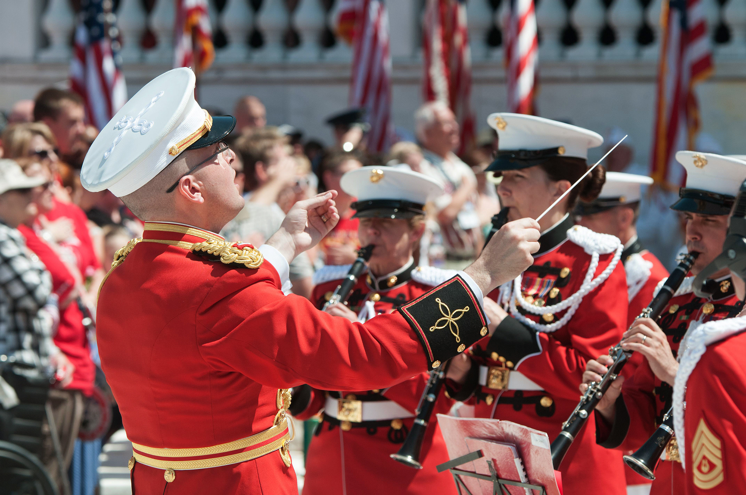 The “President’s Own” United States Marine Band performs at the Arlington National Cemetery Amphitheater during a Memorial Day observance event that featured President Barack Obama, Secretary of Defense Ashton Carter, Chairman of the Joint Chiefs of Staff Gen. Martin E. Dempsey, and other military leaders May 25. The president said that this Memorial Day marked the first celebration of the United States’ fallen since the end of combat operations in Afghanistan. (Photo by Spc. Cody W. Torkelson)